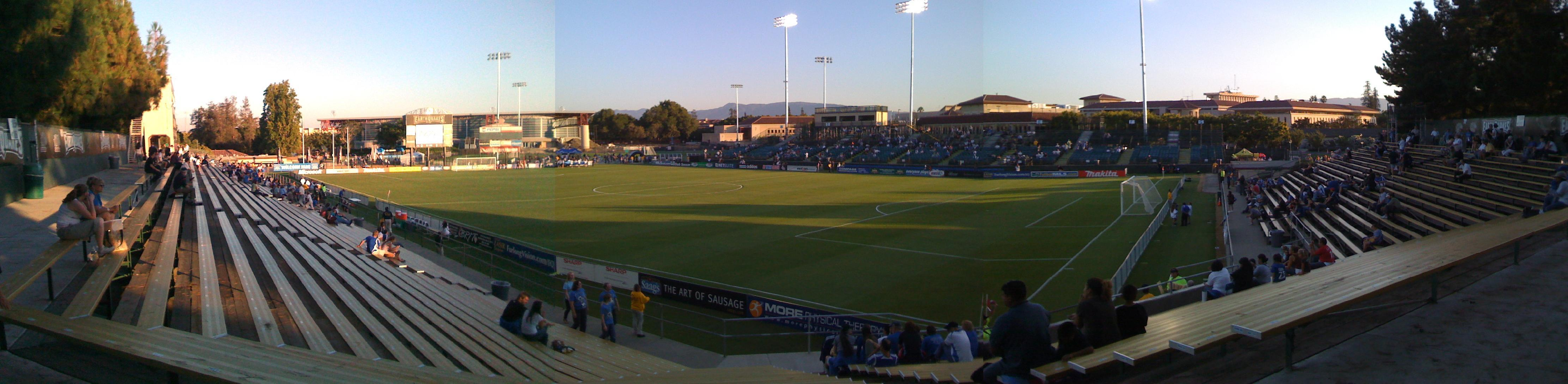 Panoramic View of Buck Shaw Stadium